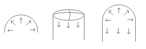 Illustration for containment building.